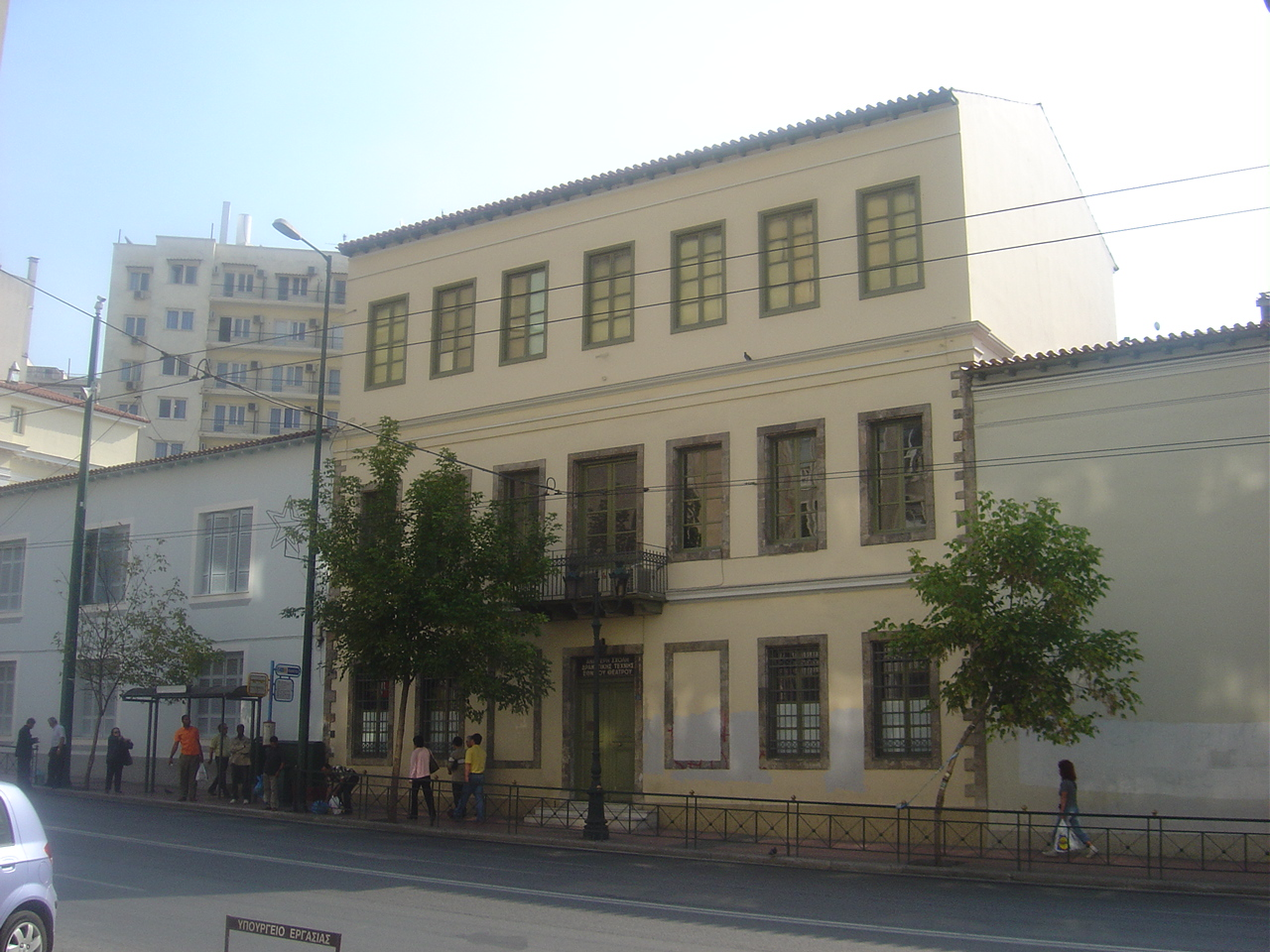 Vlahouchi mansion in Athens, Greece